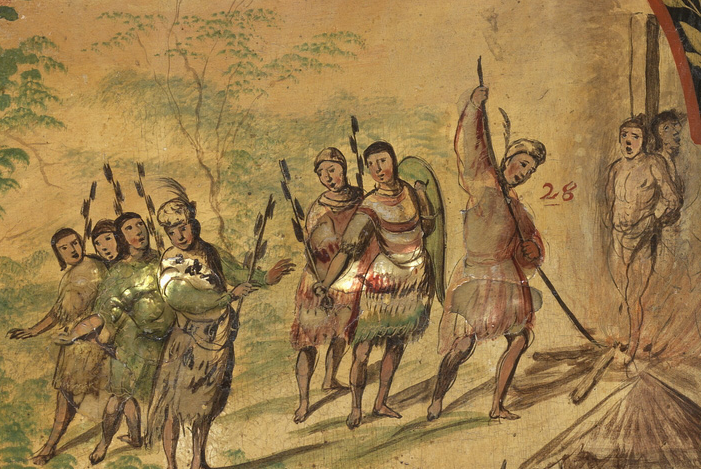 Detail of the fourteenth table about the Conquest of Mexico painted by the new Spanish artists Juan González and Miguel González. The detail shows the execution of the men responsable for the death of Juan de Escalante.